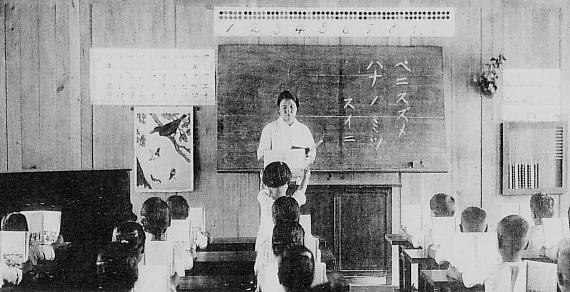 Natsushima Kogakko(School for indigenous children) classroom